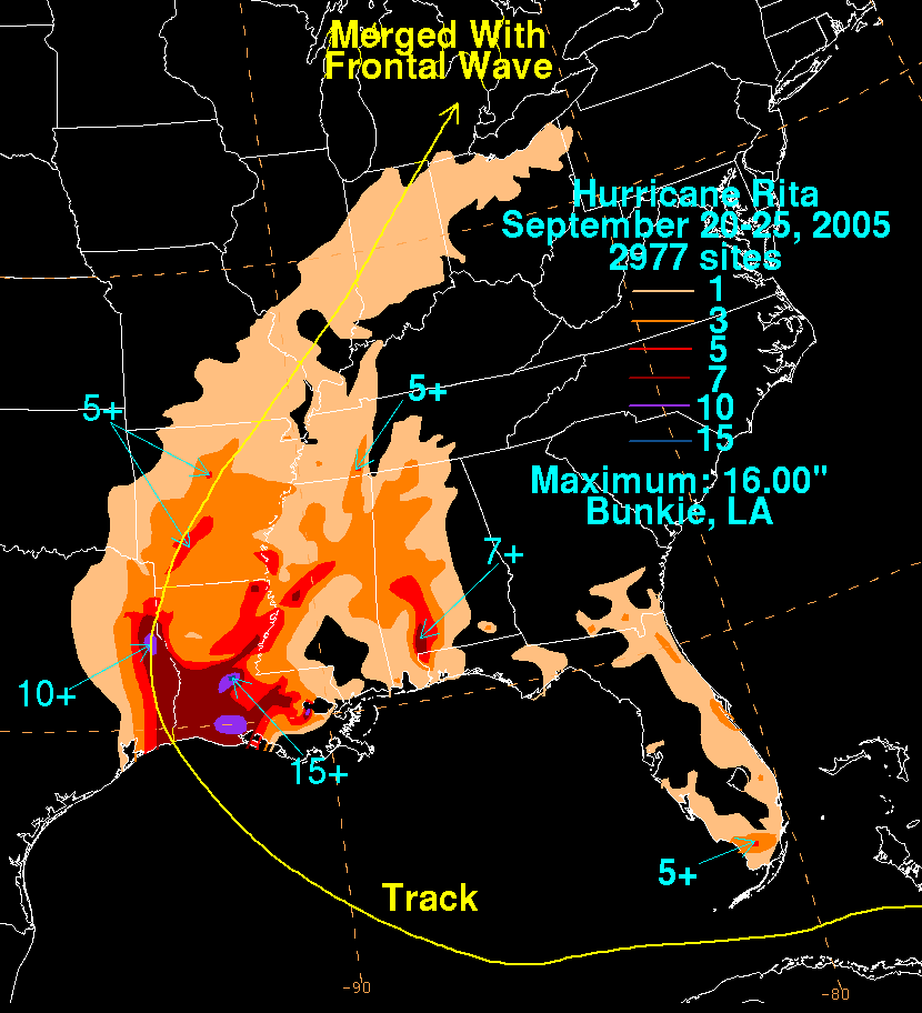 Storm total rainfall map of Hurricane Rita during September 2005.